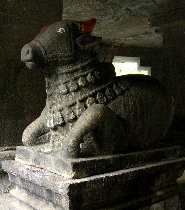 Sculpture of Nandi bull at Pataleshwar Caves, Pune by Mukul Hinge; Photograph from personal archives.